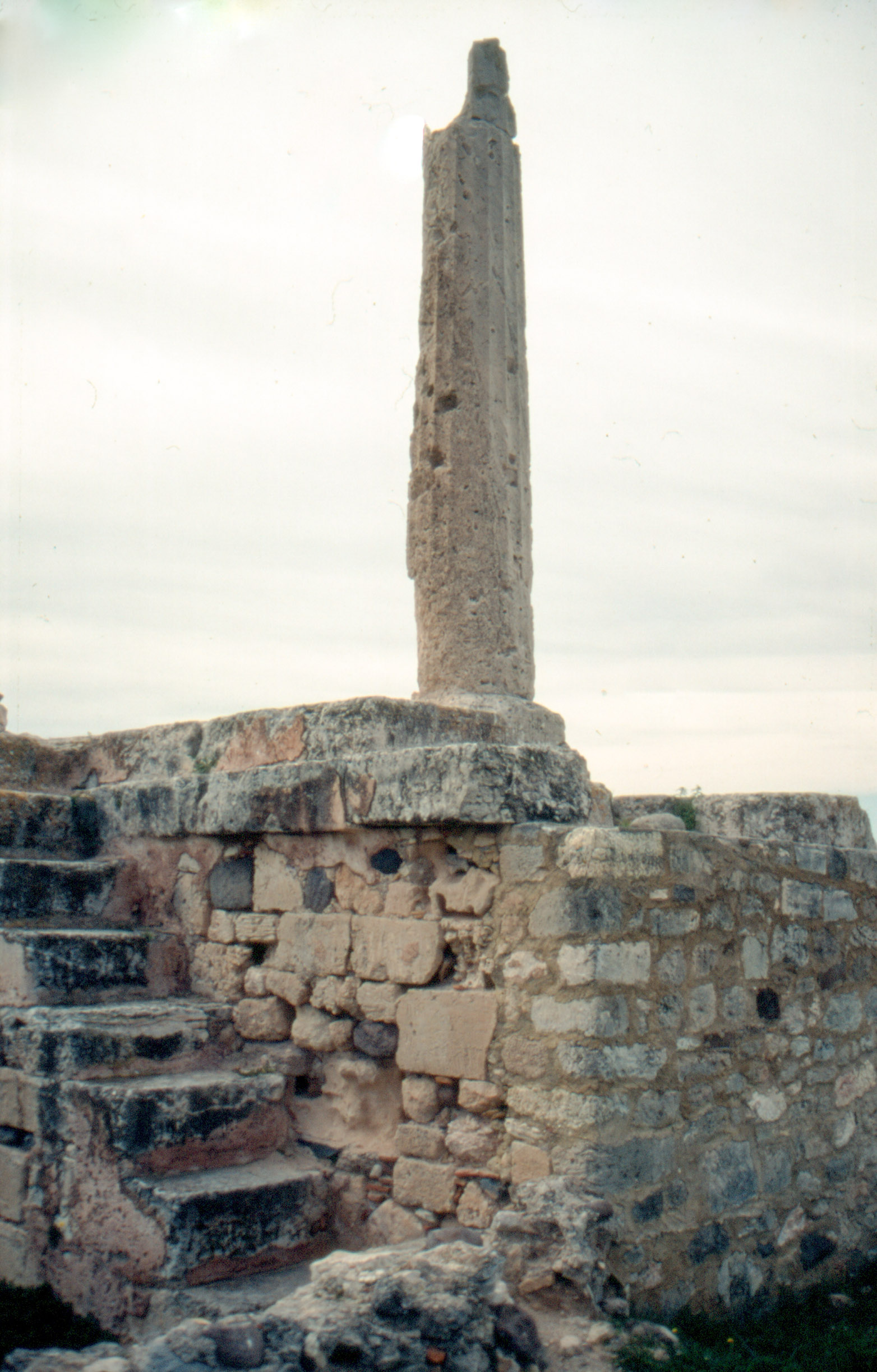 Temple of Apollo on Aegina. Photo Chris Nyborg 1994.